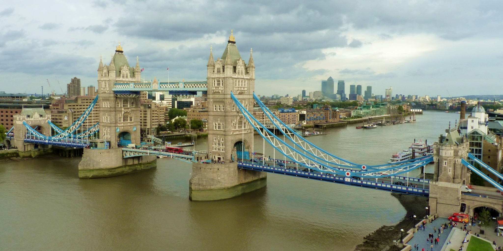 Tower Bridge viewed from the top of London City Hall.